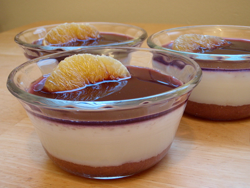 Almond panna cotta with red wine poached pear puree.